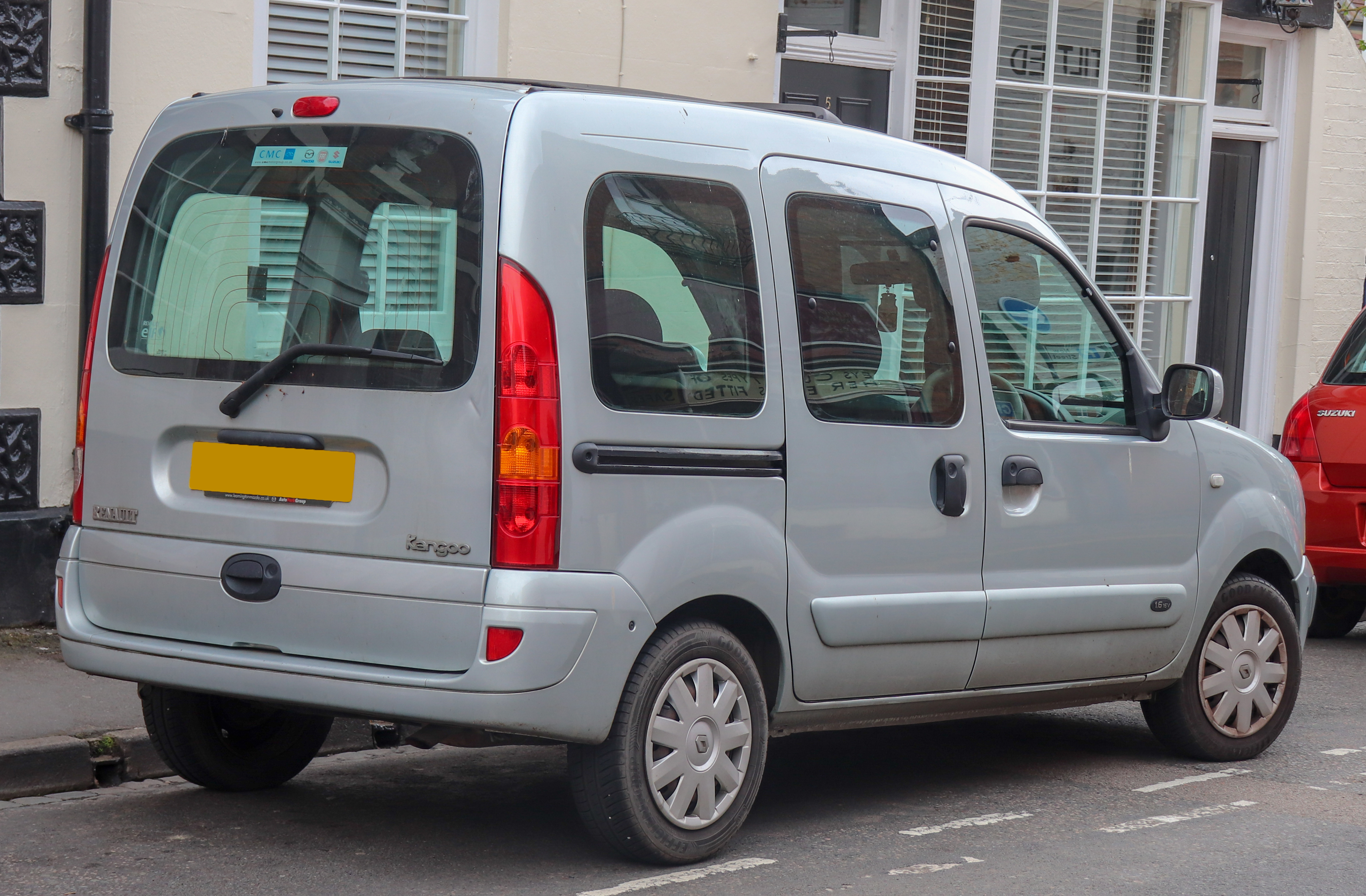 2008 Renault Kangoo Expression Automatic 1.6 Rear Taken in Warwick